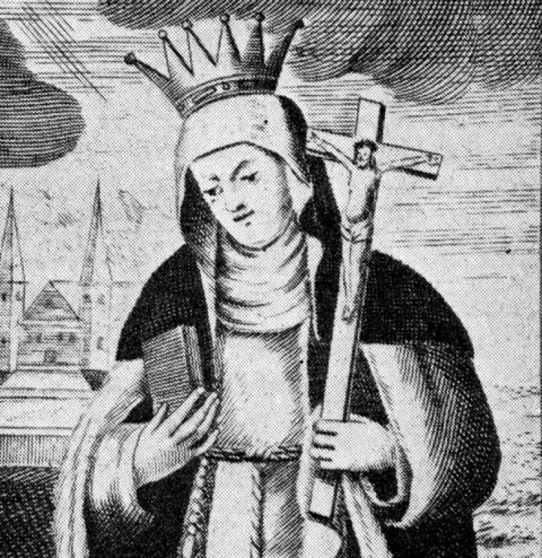 Blessed Gertrude of Altenberg, daughter Saint Elizabeth of Hungary